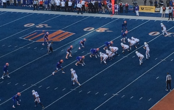 Boise State on defense vs Virginia during a game at Albertsons Stadium in Boise, Idaho on September 22, 2017.